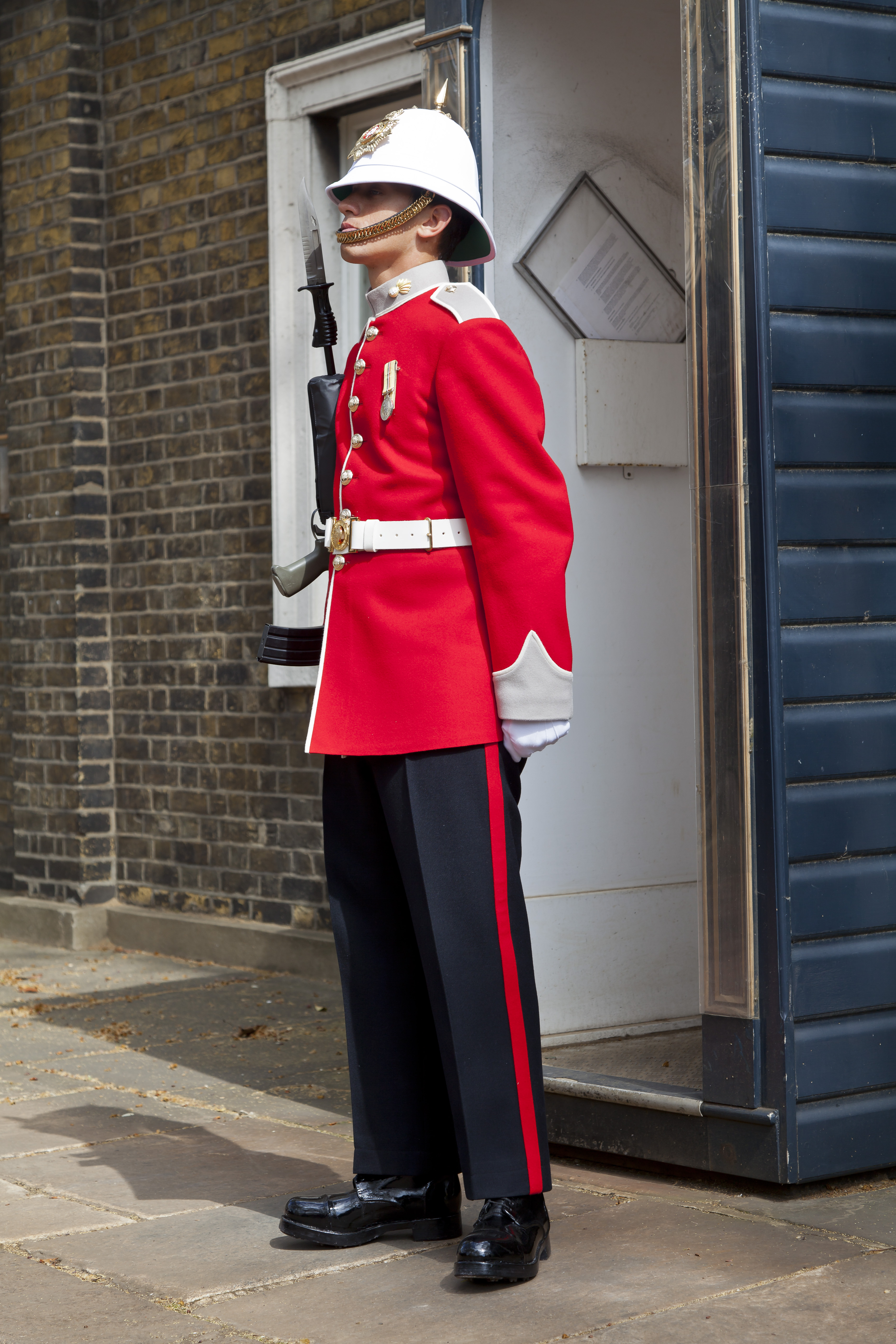 Changing of the Guard sentry box - Royal Gibraltar Regiment